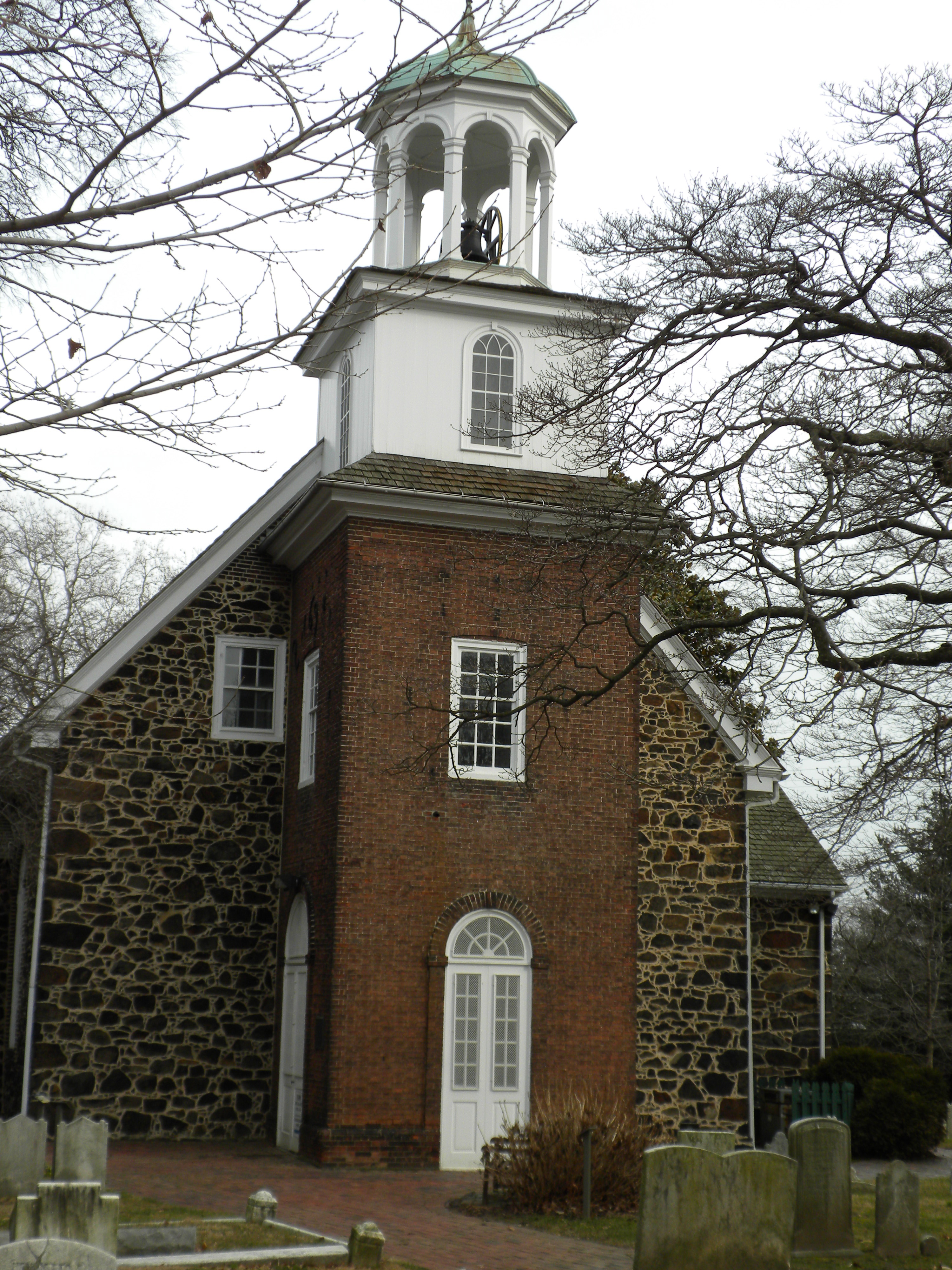 Holy Trinity Church, known as Old Swedes. At 7th and Church Sts., Wilmington, Delaware. Built 1698, graveyard goes back to 1630s. Claims to be the oldest church in America operating as originally built. Built near Fort Christina, first Swedish settlement in America. Now part of Trinity Parish, Wilmington (Episcopal). On the NRHP since October 15, 1966.